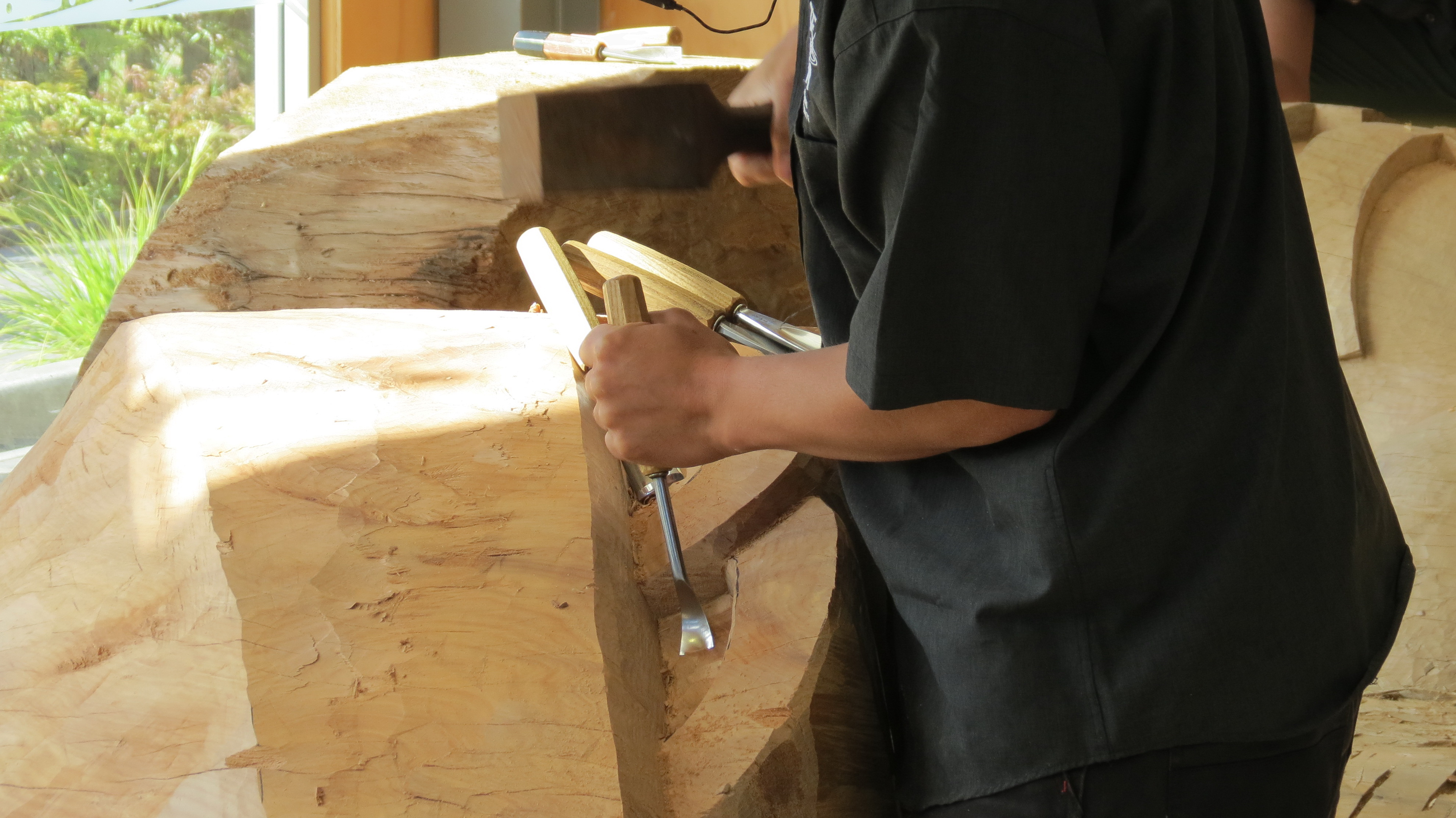 New Zealand Māori Arts and Crafts Institute, Rotorua, North Island, New Zealand